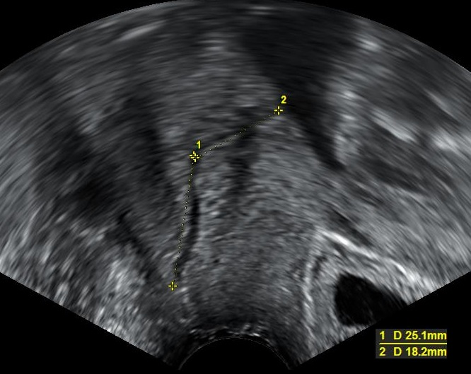 Transvaginal ultrasonography in a pregnancy of a gestational age of 22 weeks, measuring the length of the cervix to rule out cervical incompetence. In this case, the cervical length is over 40 mm, which is normal. Part of the head of the child is visible at upper right. This measurement was not optimally performed, since it should be measured without any pressure on the cervix from the ultrasound transducer, so that there is only one measured distance instead of several fragmented ones.